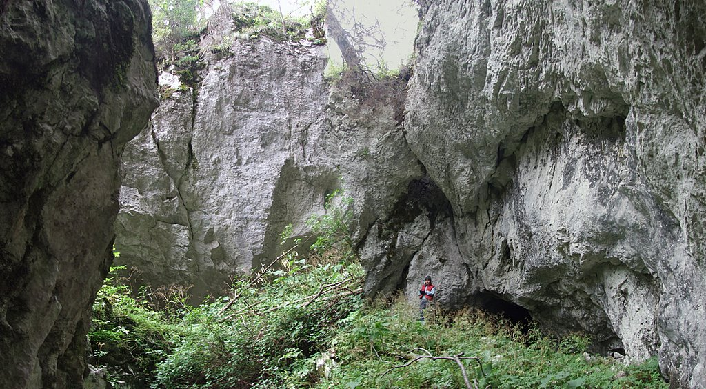 Organy w Dolinie Kościeliskiej w Tatrach. Okolice Zbójnickich Okien